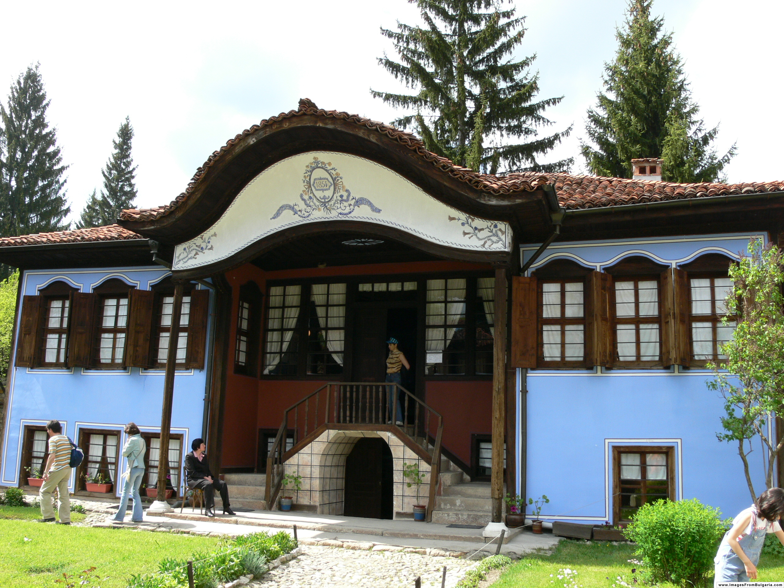 Lyutov House in Koprivshtitsa, Bulgaria